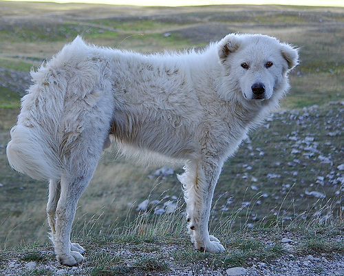 Pastore Abruzzese,November 2006, by Max31055, ShareAlike